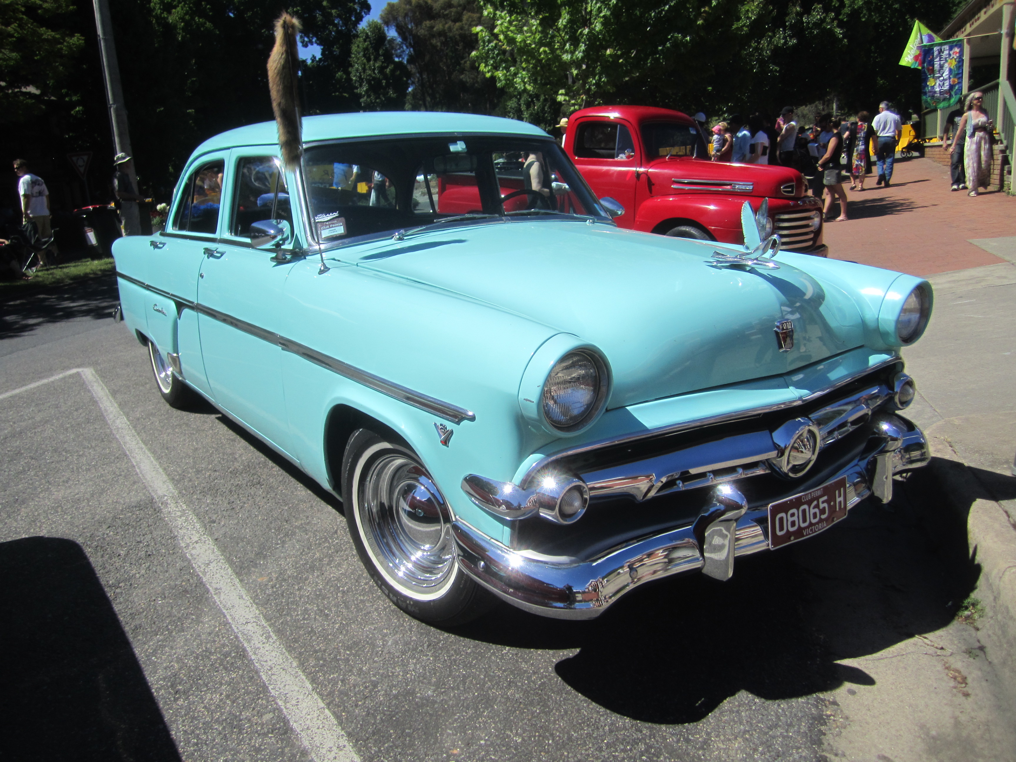 1954 Ford Customline Fordor Sedan (hood decoration is custom-made, using 1953 hood decoration)